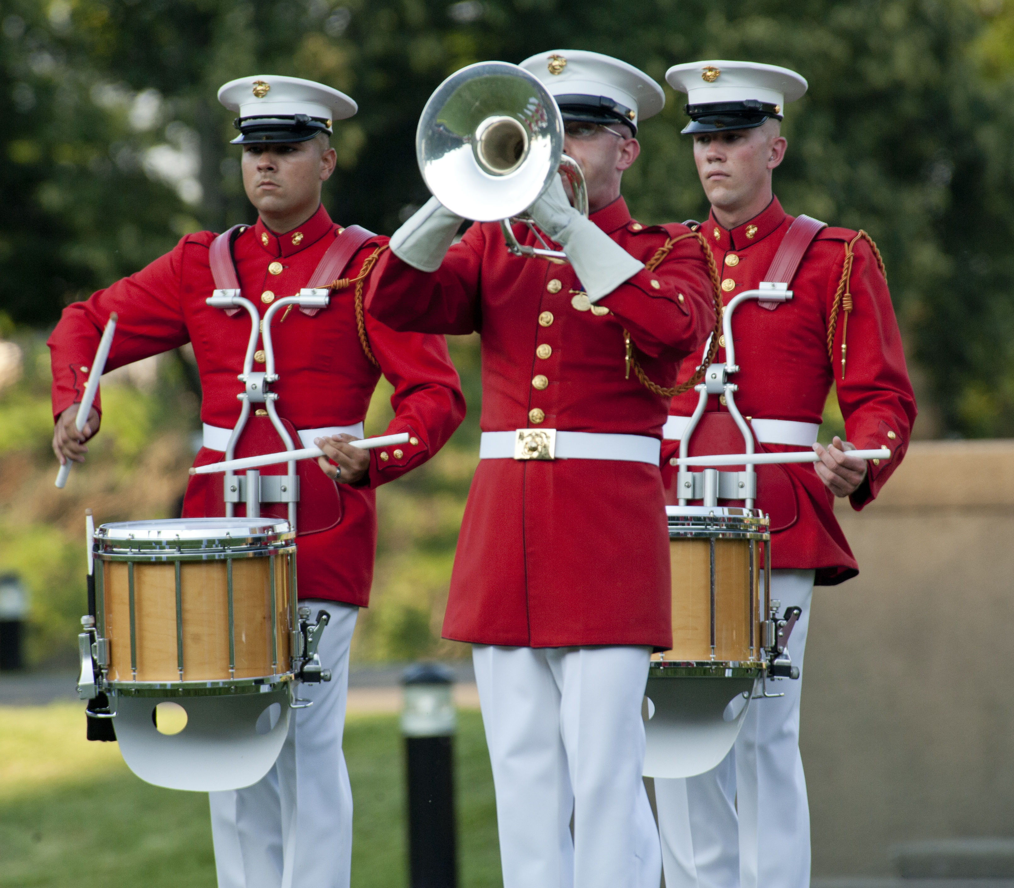 U.S. Marines assigned to the Marine Drum and Bugle Corps perform during a Sunset Parade at the Marine Corps War Memorial in Arlington, Va., July 16, 2013. Sunset Parades are held every Tuesday during the summer months.